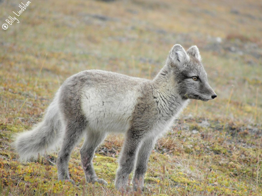 Arctic Fox (Alopex lagopus) at Svalbard autumn in September